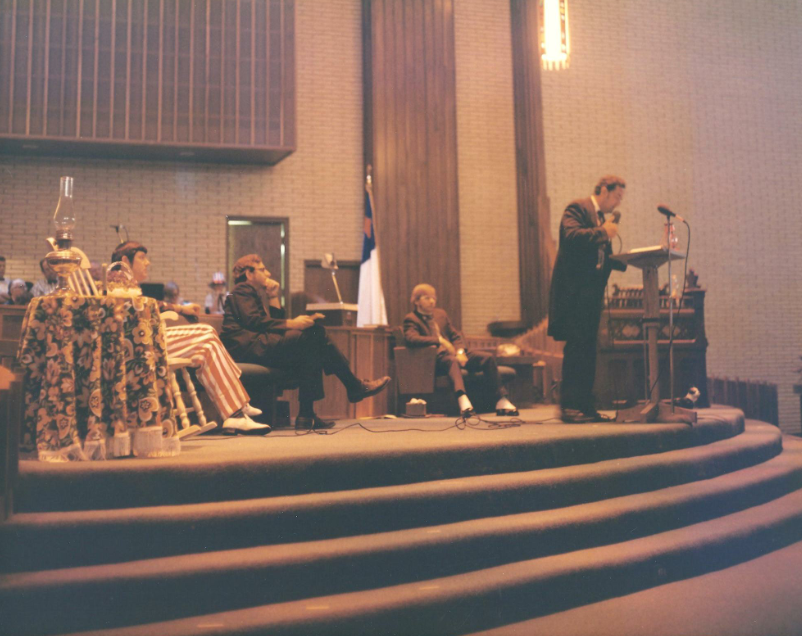 This is a copy of a picture found the archives of Rockford First. This is Pastor Ernest Moen preaching in the old Rockford First Sanctuary on Easter Sunday 1971